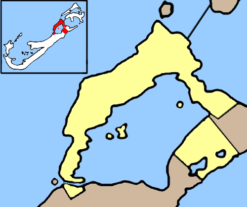 Location map of Hamilton parish, Bermuds